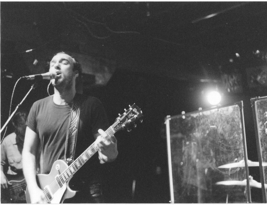 Jeremy Enigk of The Fire Theft. Taken at Richmond show in May 2004